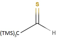 The structure formula of tris(trimethylsilyl)ethanethial